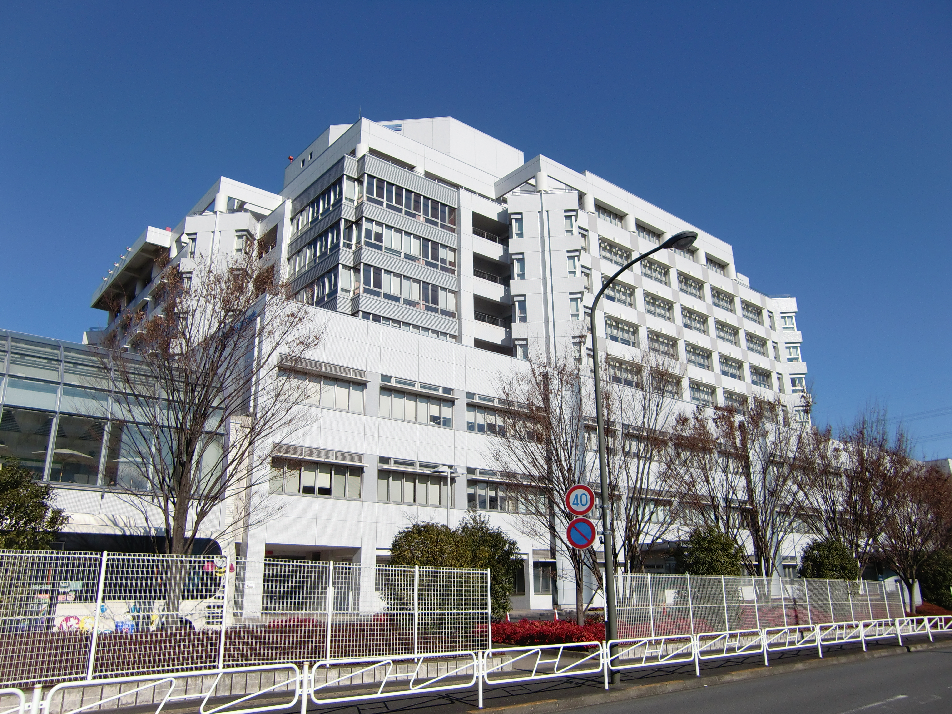 Tokai University Hachioji Hospital